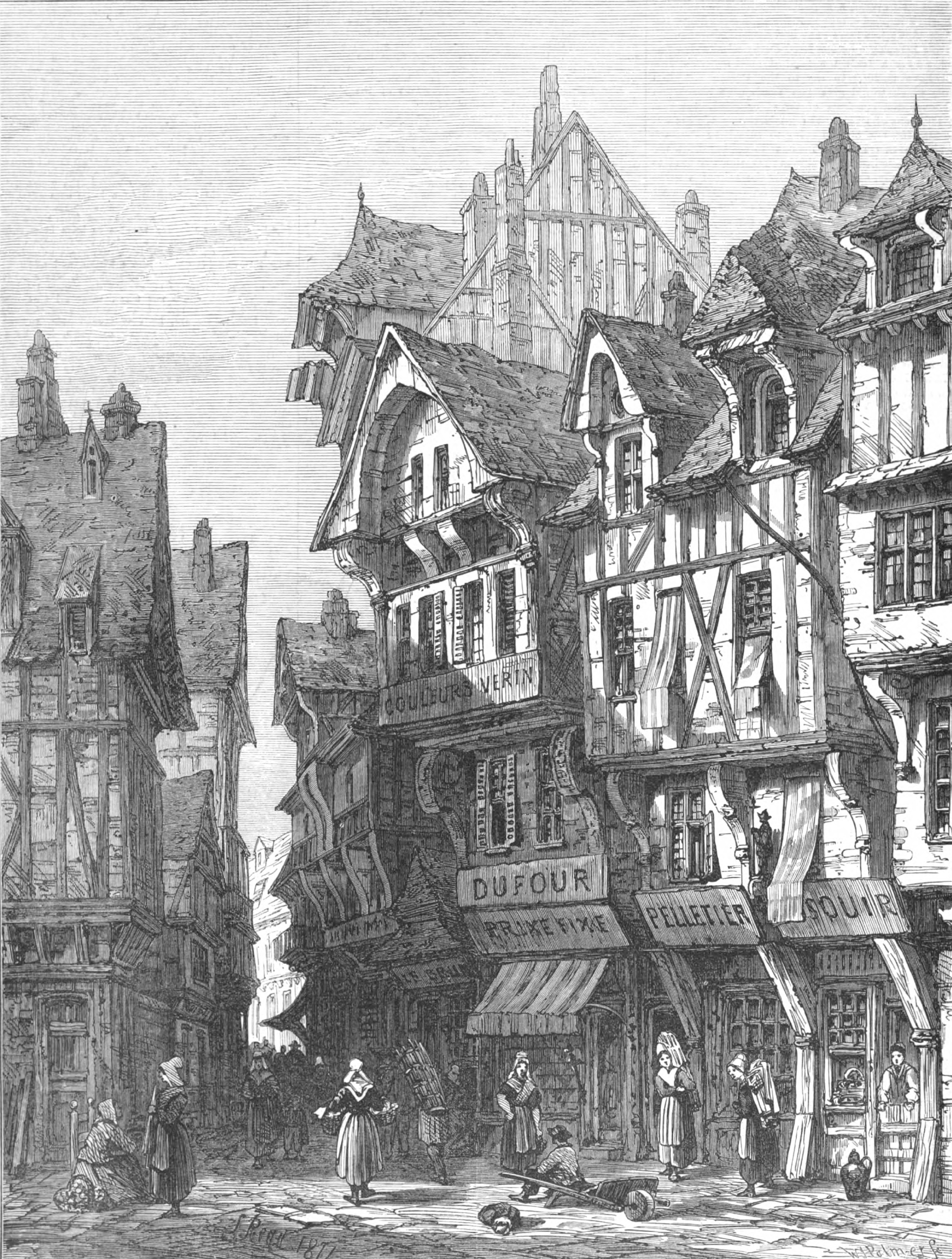 "A Street in Rouen", by S. Read, in the Exhibition of the Society of Painters in Water Colours.